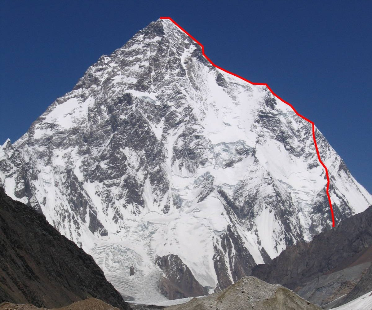 K2 July 2006: trace of the Abruzzi spur route